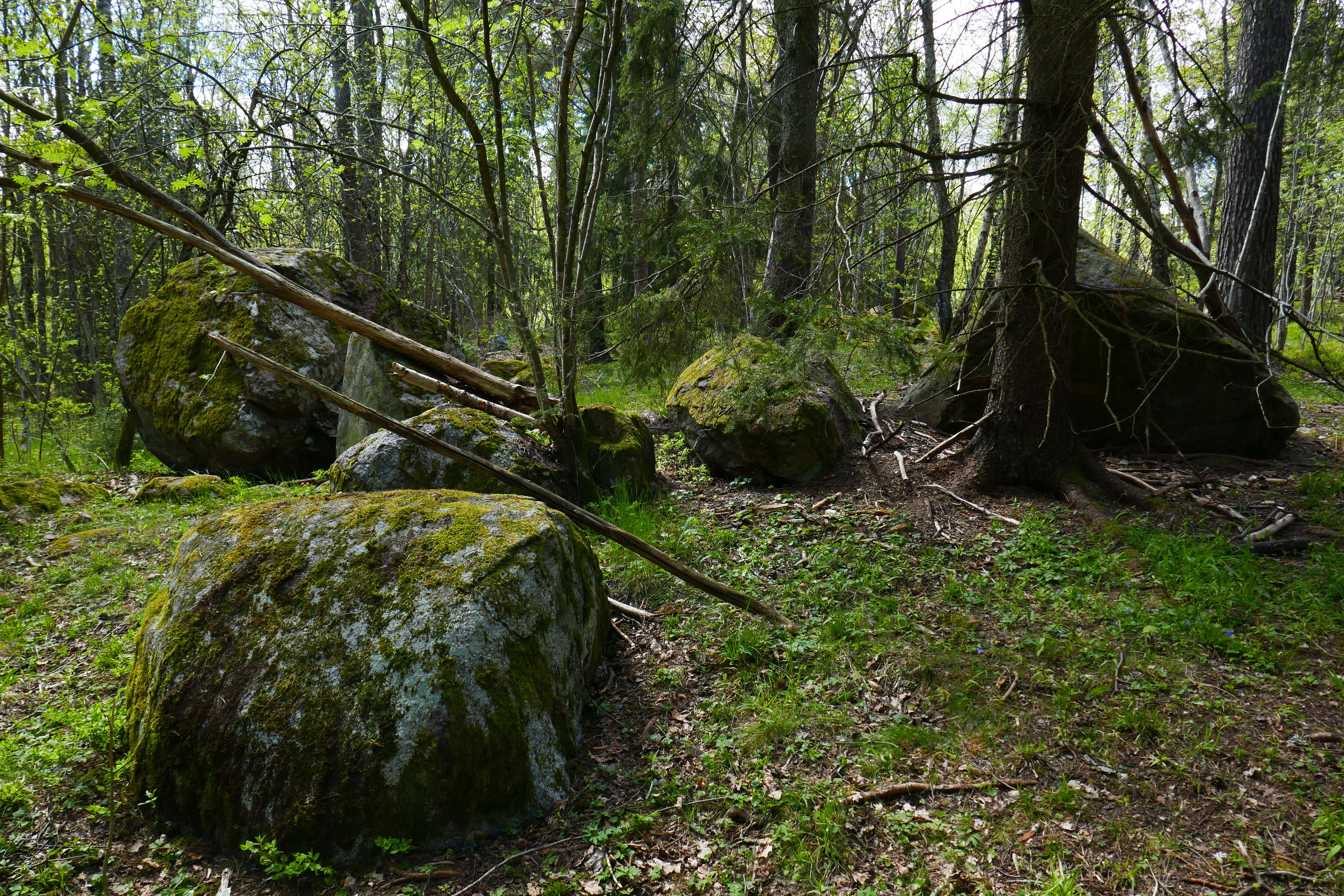 Glacial erratics at Tegelhagsskogens naturreservat, Sollentuna